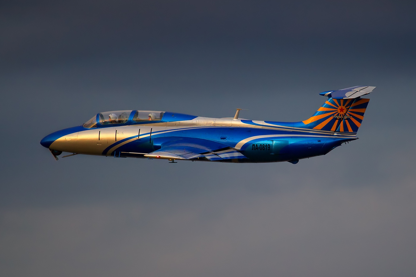 The golden sunset after a rainy and gloomy autumn day